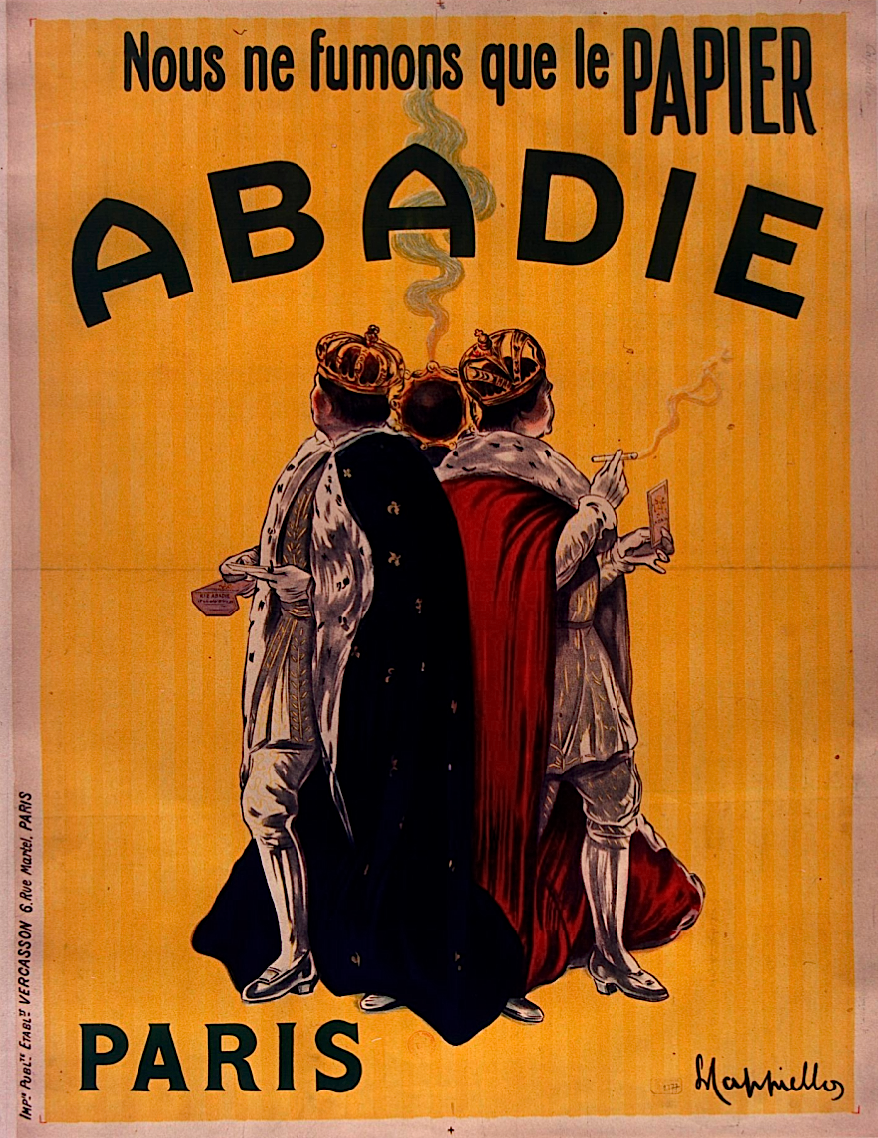 Nous ne fumons que le papier Abadie. Paris, lithographic poster designed by Leonetto Cappiello, printed by Vercasson (Paris).